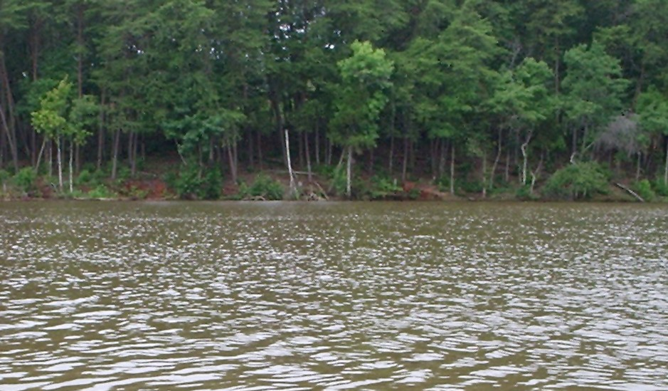 Photo taken by the uploader on the Catawba River, 2006-07-24